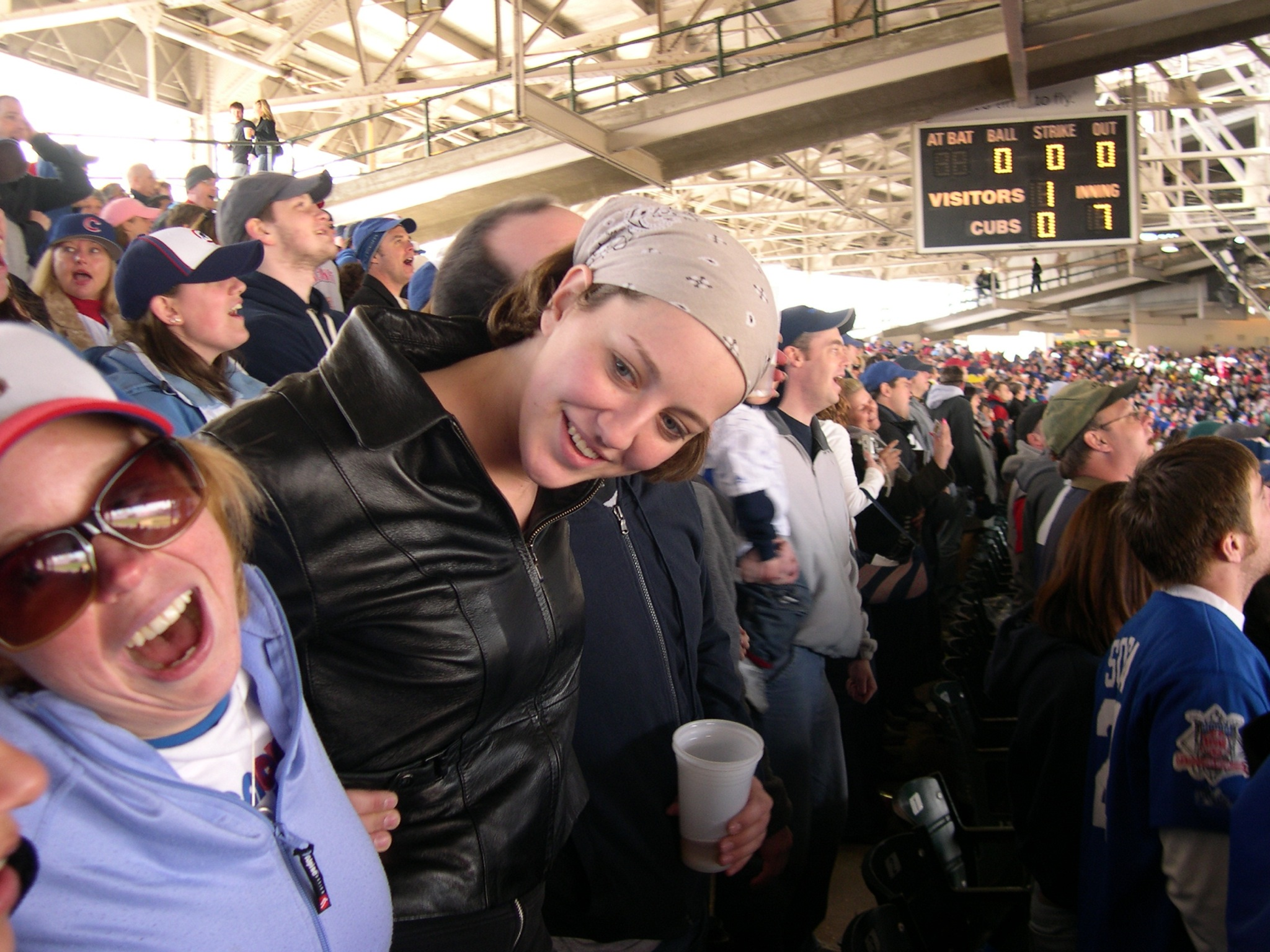 Cubs fans at Wrigley Field singing the 7th Inning Stretch.